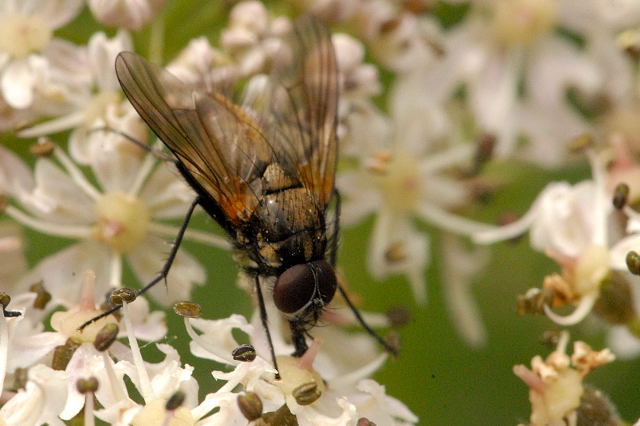 Zaphne ambigua from Commanster, Belgian High Ardennes .